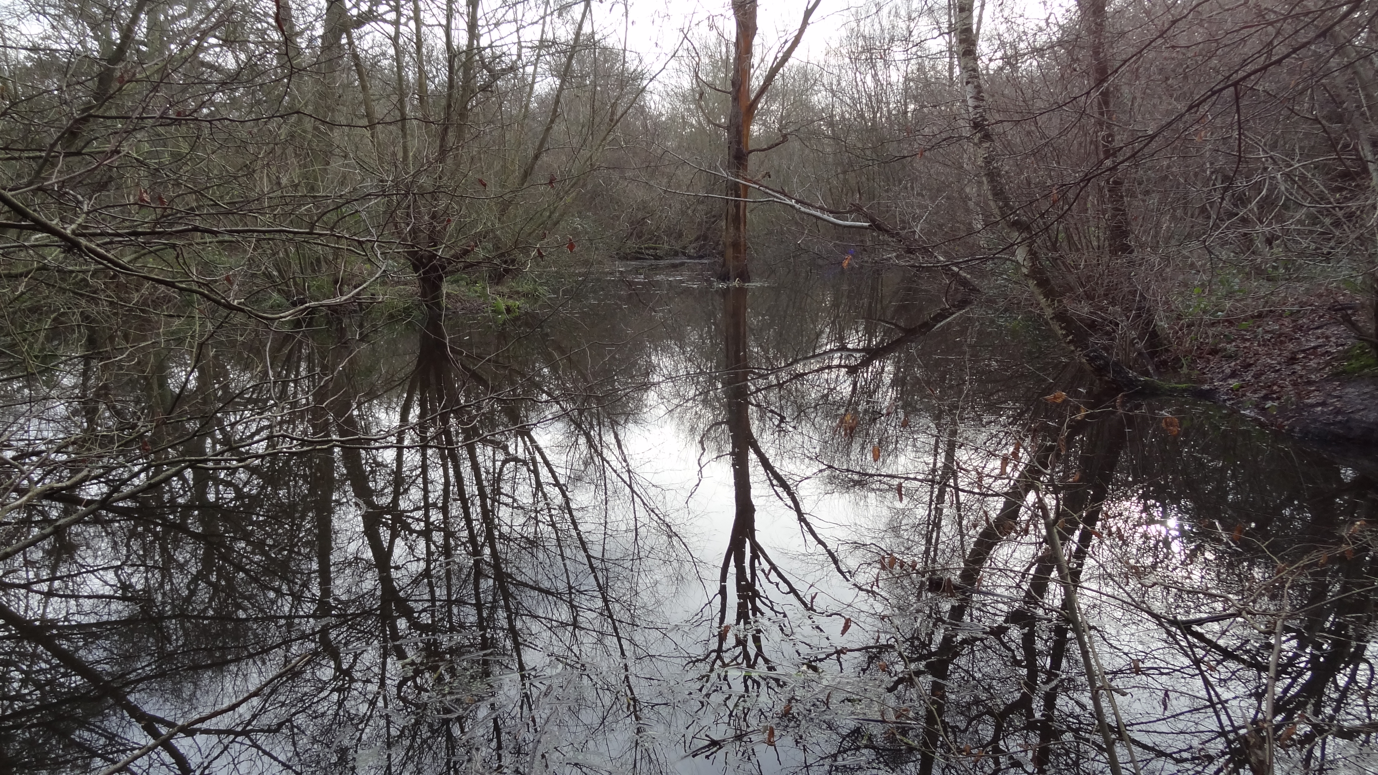 Fishpond Wood lake, Wimbledon, London